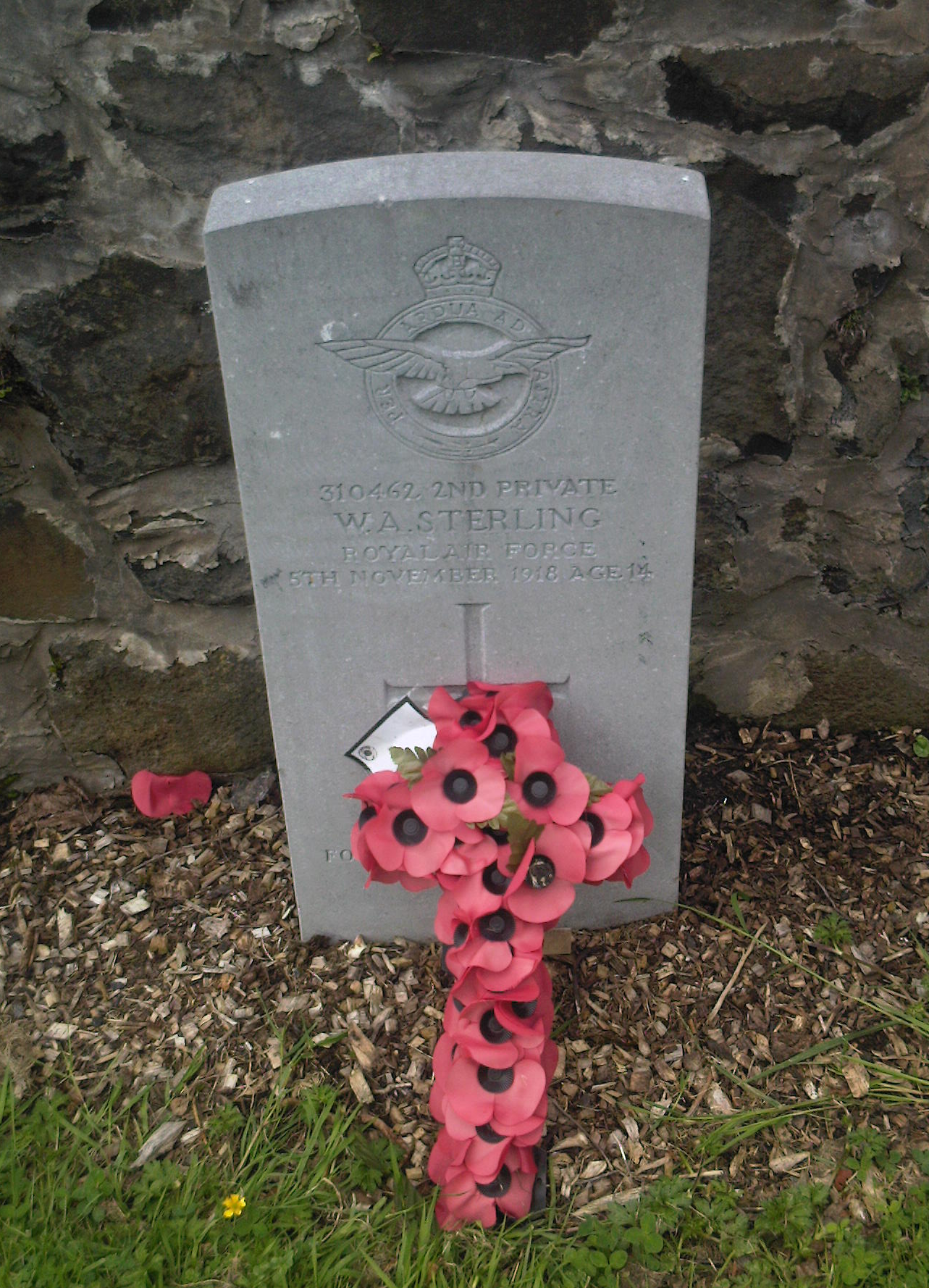 Royal Air Force grave in the Shankill Graveyard, Belfast, showing 14 year old RAF Private.